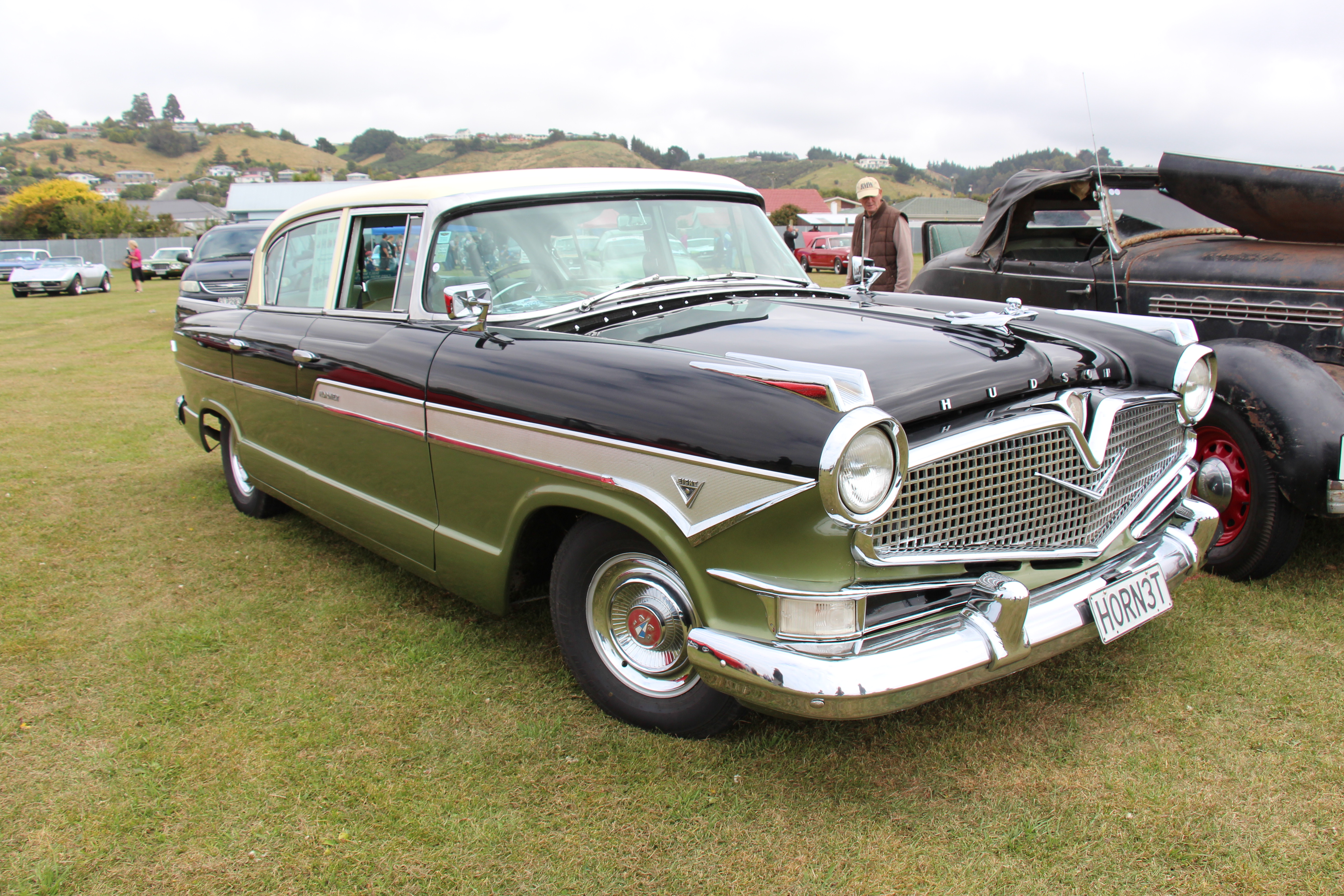 The Hornets were built from 1951-57. The 1st generation, 1951-54 were built by Hudson, the 2nd generation, 1955-57 were actually a restyled Nash and were a product of AMC. It was only available in 4 door Sedan or 2 door Hardtop. In 1956 they got the V line styling, V shapes throughout the interior and exterior. Combined with tri-tone paint combinations, the Hudson's look was unique and immediately noticeable. 1957 was similar but also got a new egg-crate grille, creases and chrome strips on the sides. Engine; 327 cu in V8